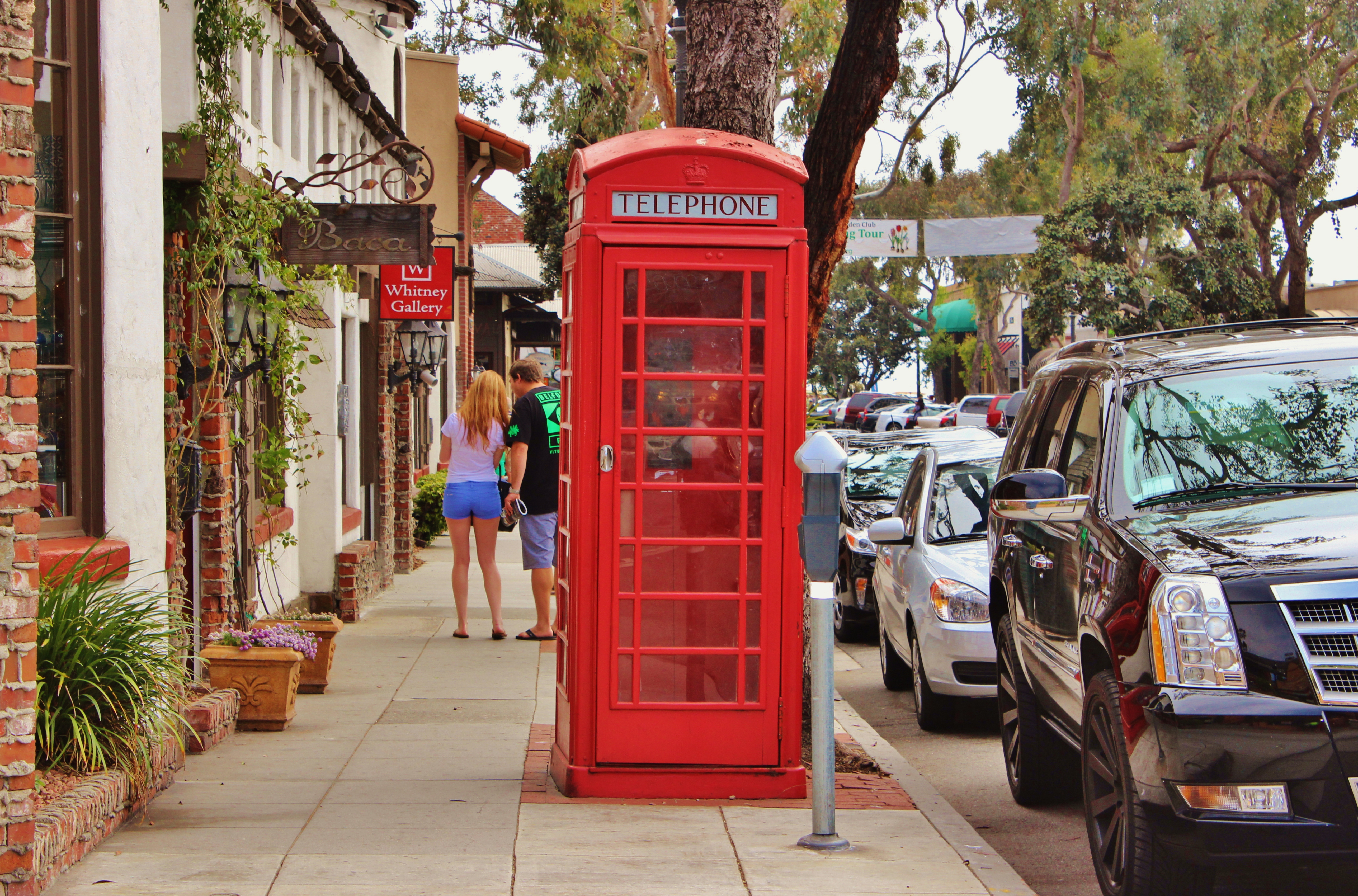 Laguna Beach California United States